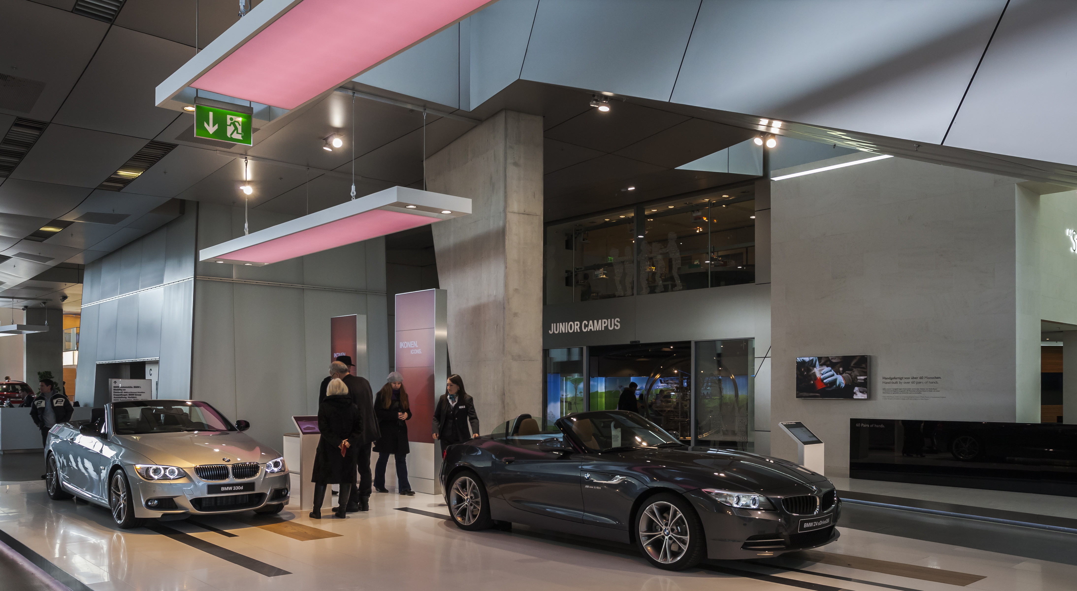 Interior of the BMW Welt, Munich, Germany